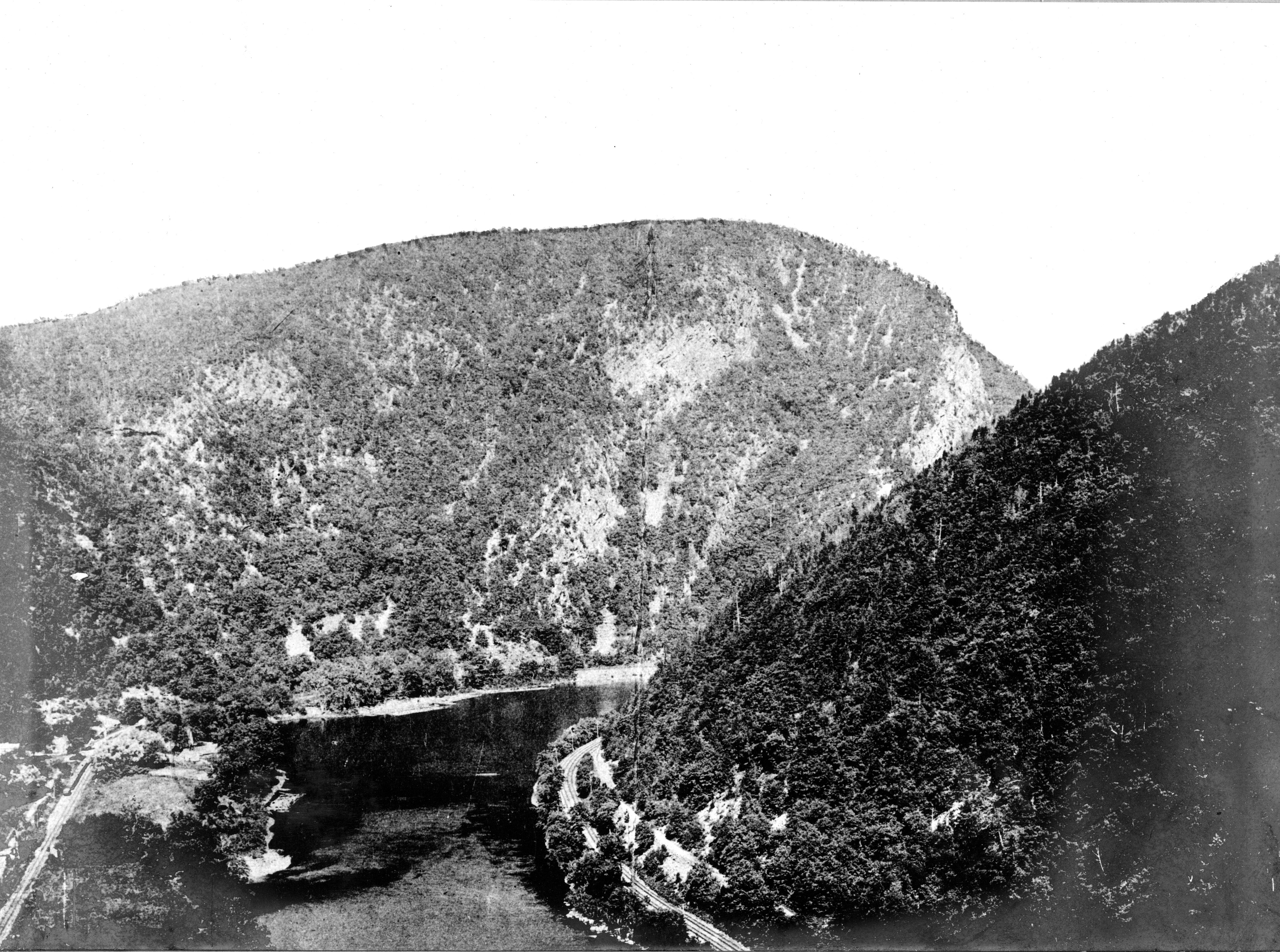 View of the Delaware Water Gap from the west